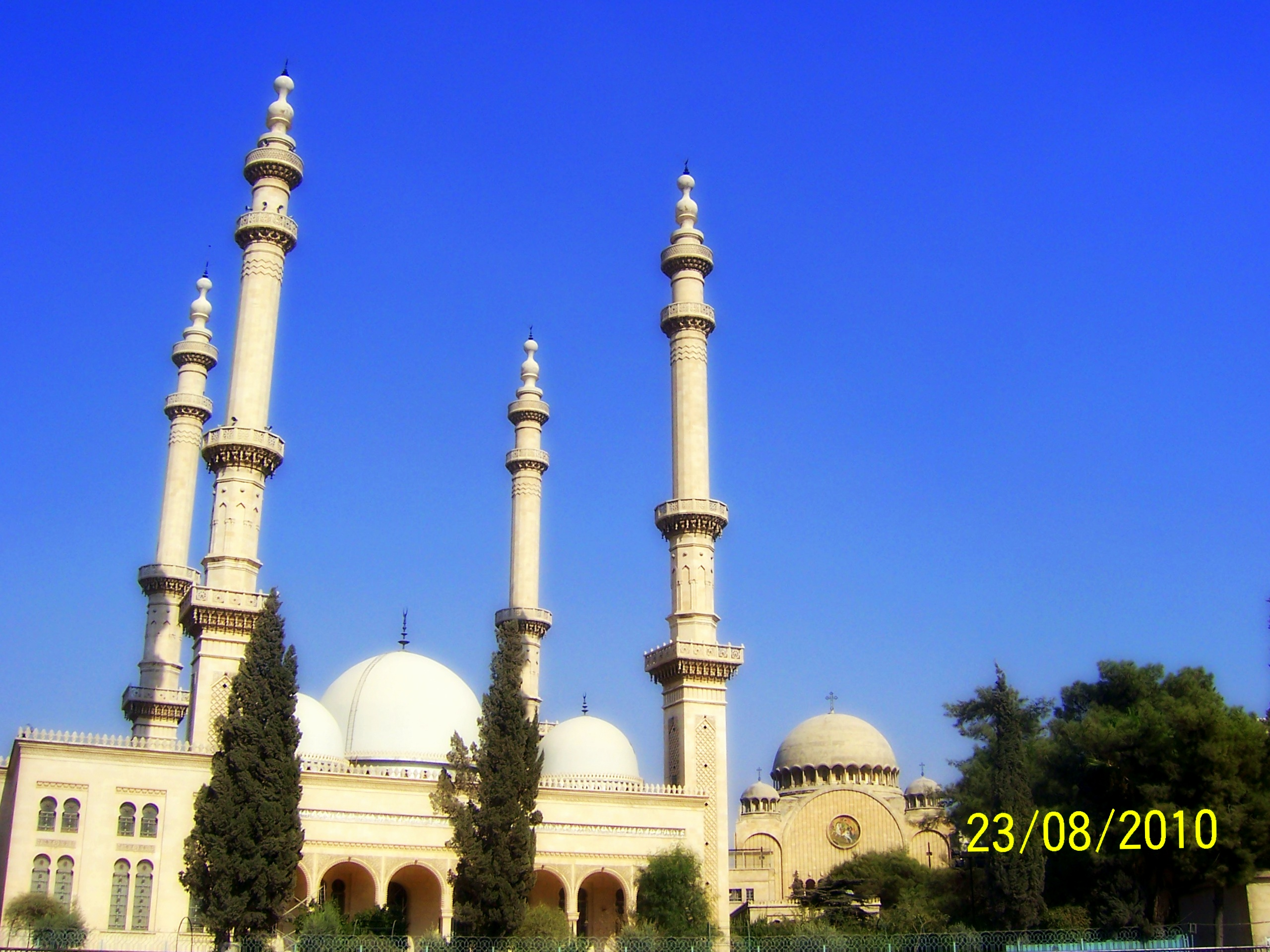 Tawhid Mosque and Saint George's Church, Aleppo in 2010.